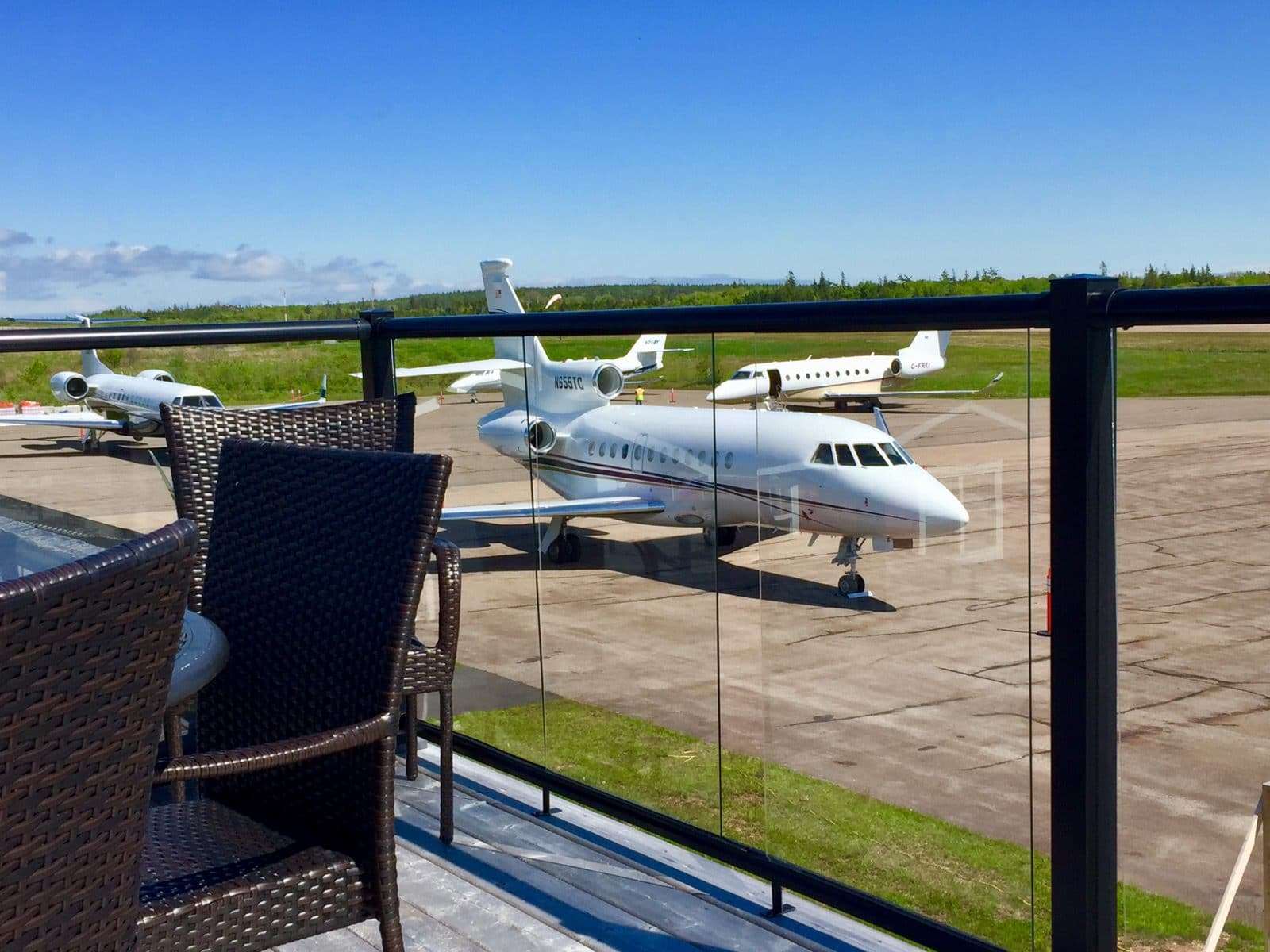 Several aircraft parked on the apron at Allan J. MacEachen Port Hawkesbury Airport